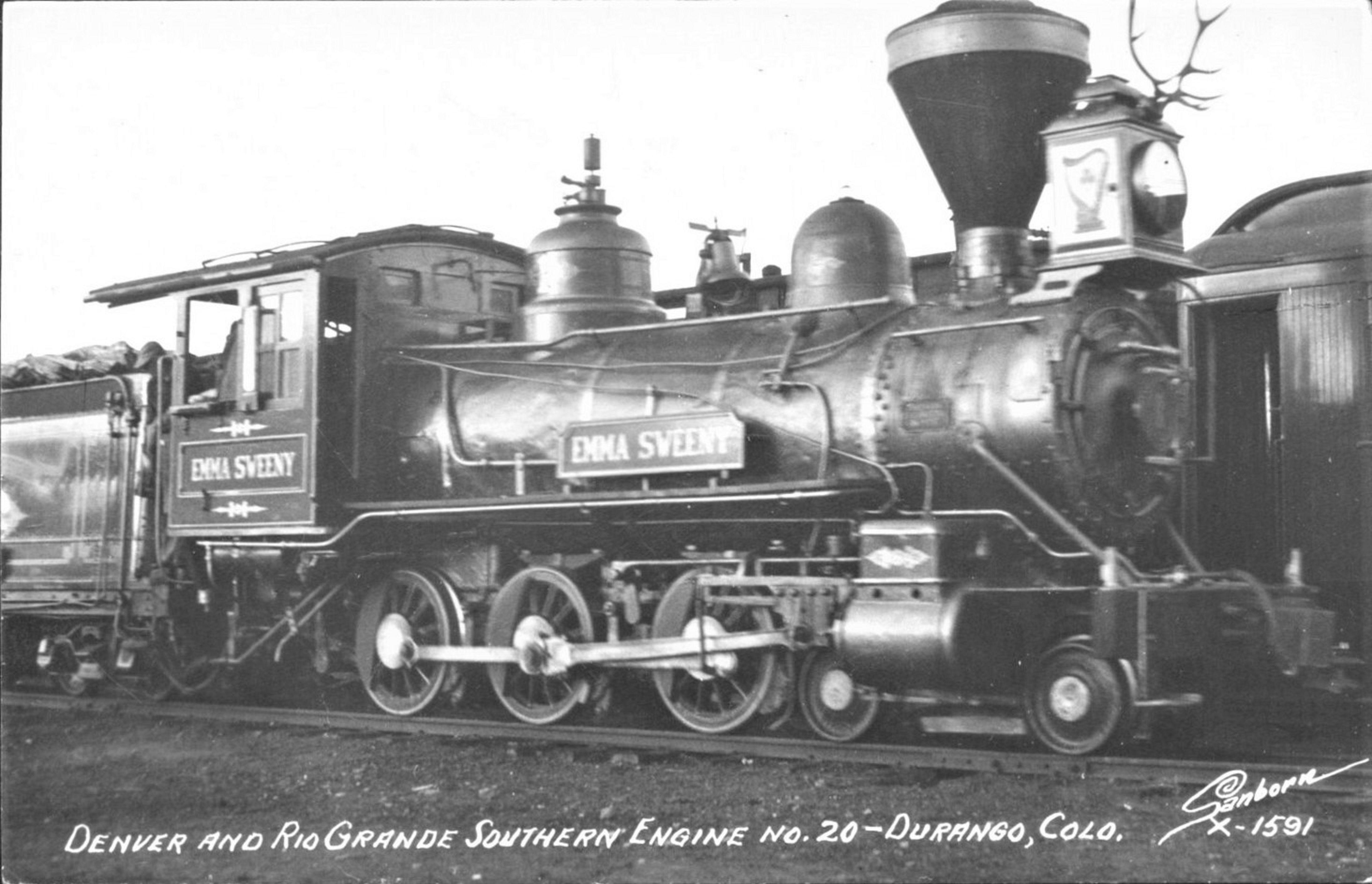 Rio Grande Southern locomotive #20 "in costume" as the Emma Sweeny.